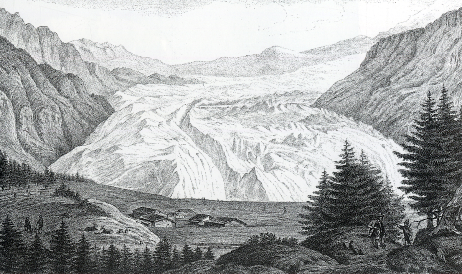 The Suldenferner threatening the Gampenhöfe/Sulden in 1819